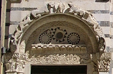 The tympanum of Carrara cathedral